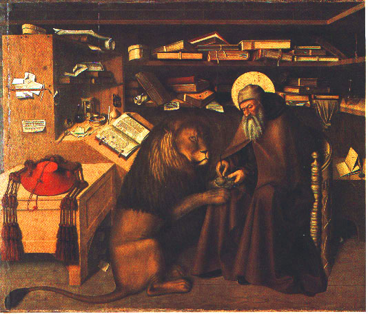 Jerome in his Studylabel QS:Len,"Jerome in his Study"label QS:Lit,"San Girolamo nello studio"